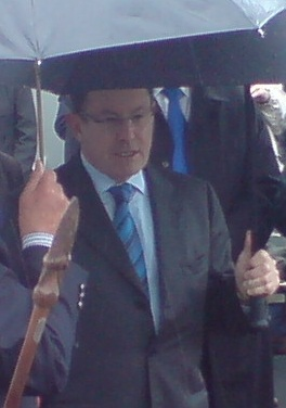 John Banks, Mayor of Auckland City, New Zealand. At the ribbon-cutting ceremony for the reopening of Grafton Bridge.